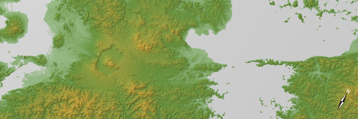 Japan Median Tectonic Line in Kyushu, Japan.